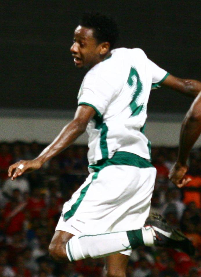 Abdullah Shuhail is a Saudi football player, playing with the Al-Shabab club in Saudi Arabia.